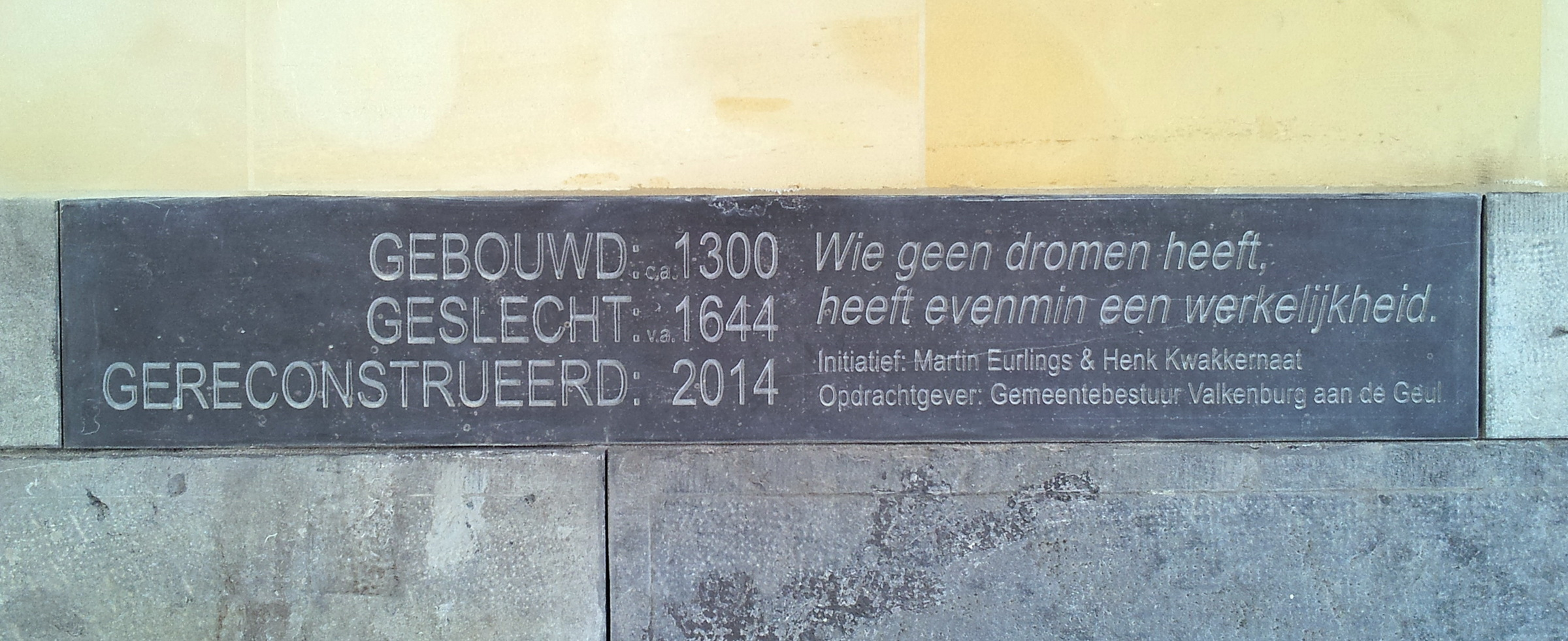 Valkenburg, Limburg, the Netherlands. Plaque conmemorating the rebuilding of Geulpoort, one of originally three medieval city gates. Geulpoort was demolished in the 17th century but reconstruction commenced in 2014.